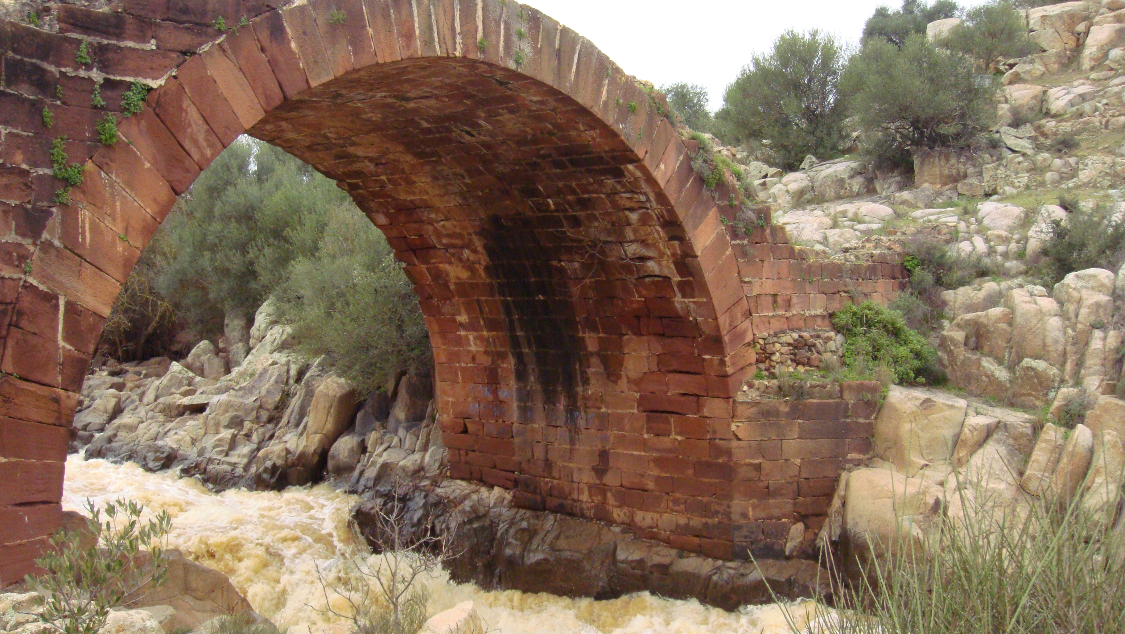 Natural Monument "El Piélago", Linares-Vilches (province of Jaén, Spain).